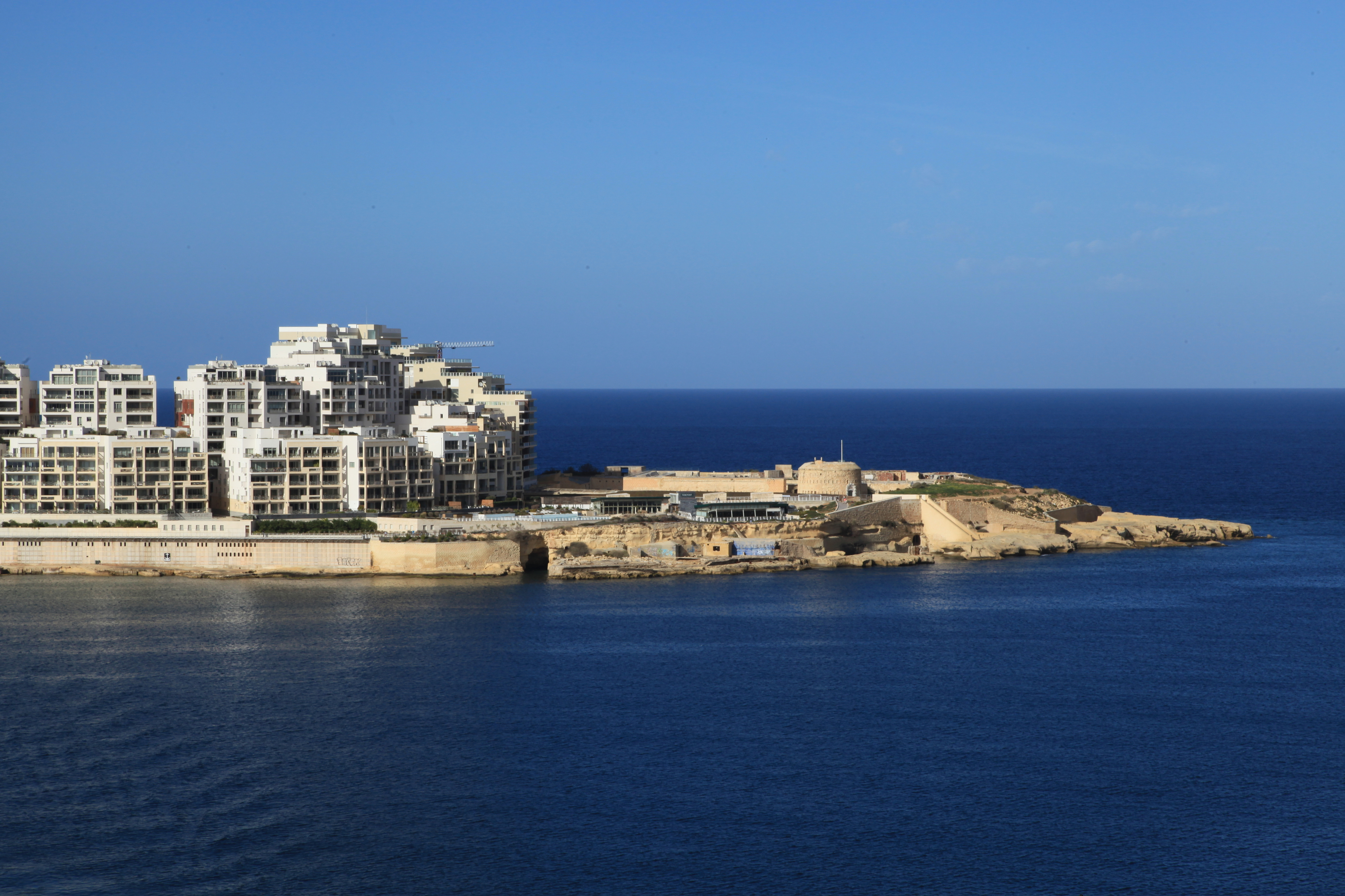 View from St. Andrew's Bastion in Valletta to Fort Tigné and Tigné Point in Sliema